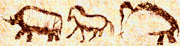 Kapova Cave (Russia) pictures of animals in the "Hall of paintings"